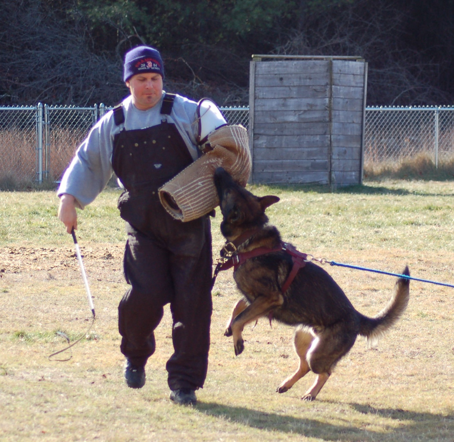 A helper works a German Shepherd in a practice protection session during Schutzhund training.